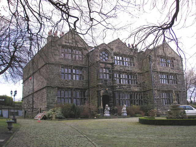 Barkisland Hall A Grade I listed house built by John Gledhill in 1638. In 1967 it was bought by Joseph (later Lord) Kagan (of Gannex fame) as accommodation for visitors to his company.